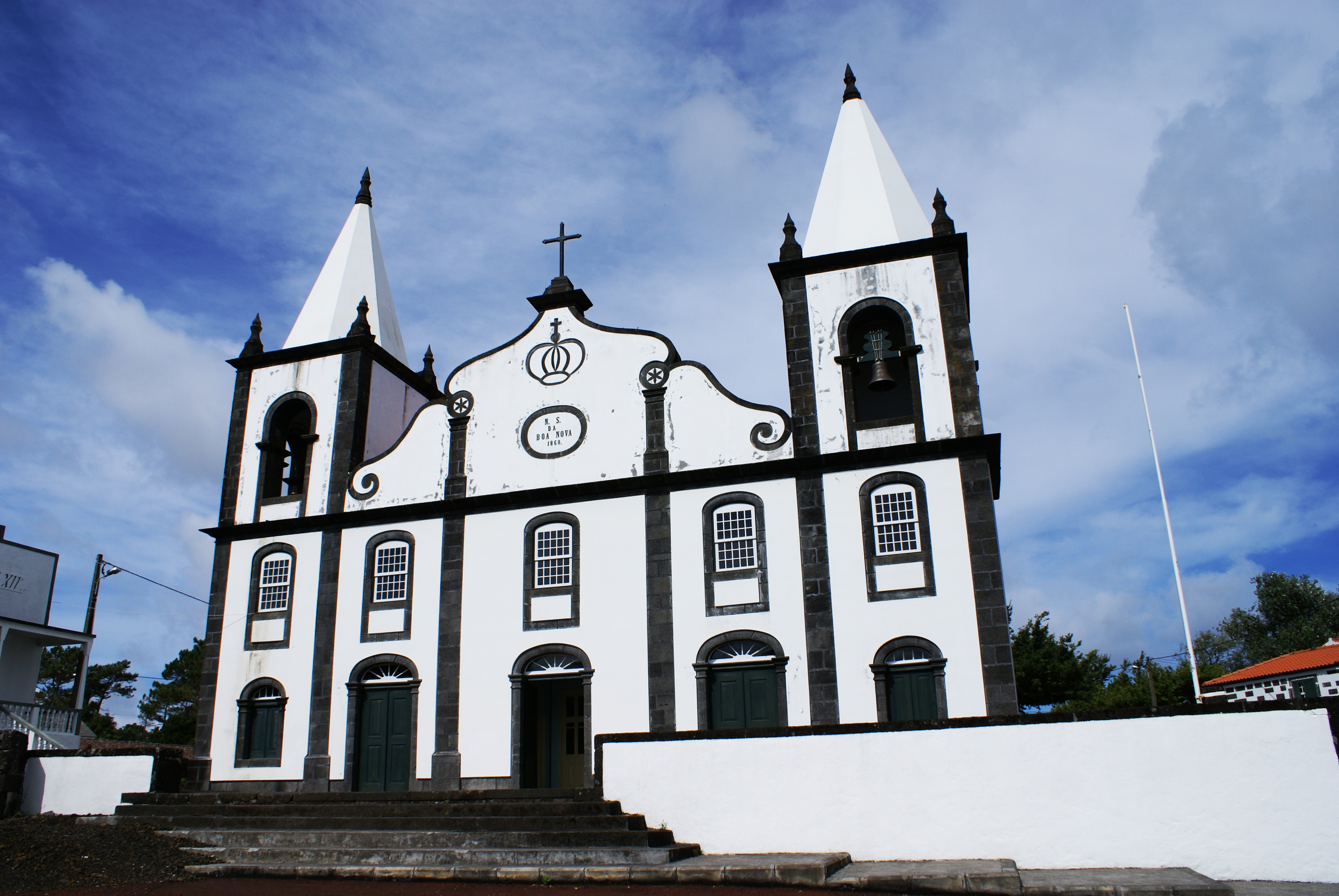 Front façade of the Church of Nossa Senhora da Boa Nova, Bandeiras, Madalena, Pico (Azores), Portugal